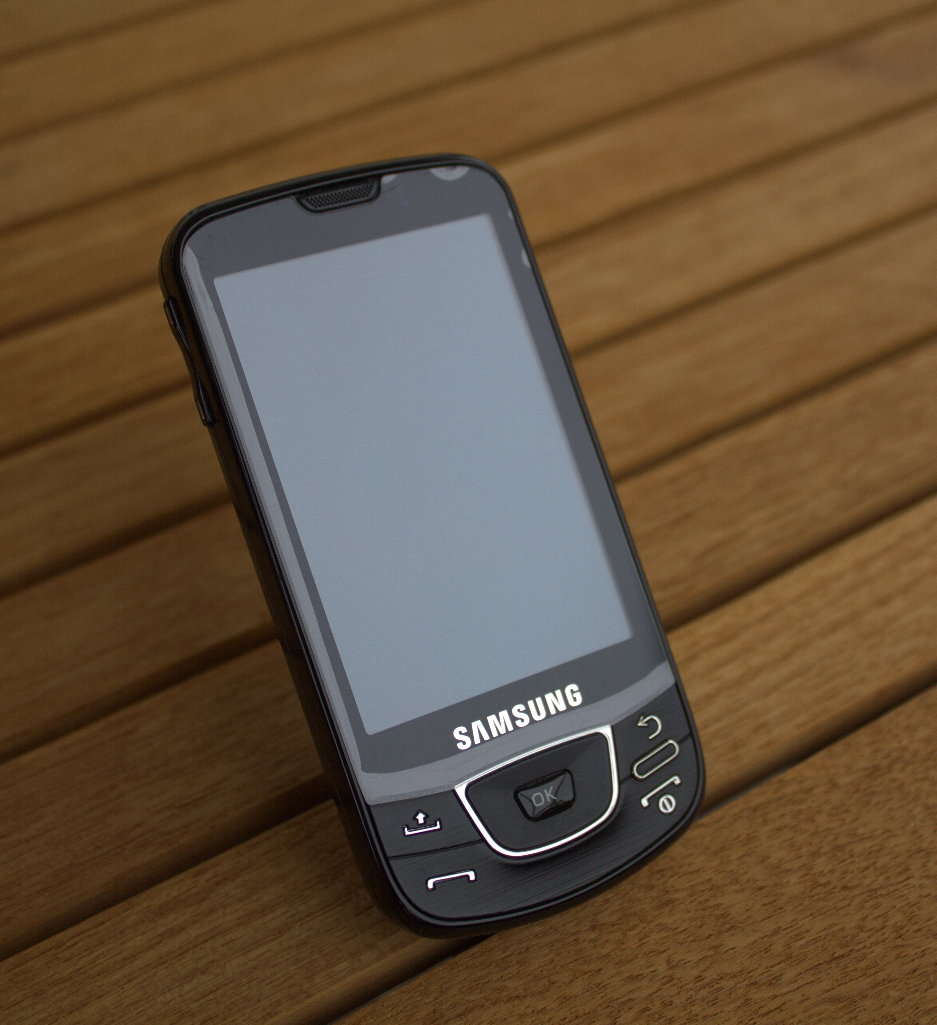 Samsung i7500 standing on a table supported by two hidden toothpicks.